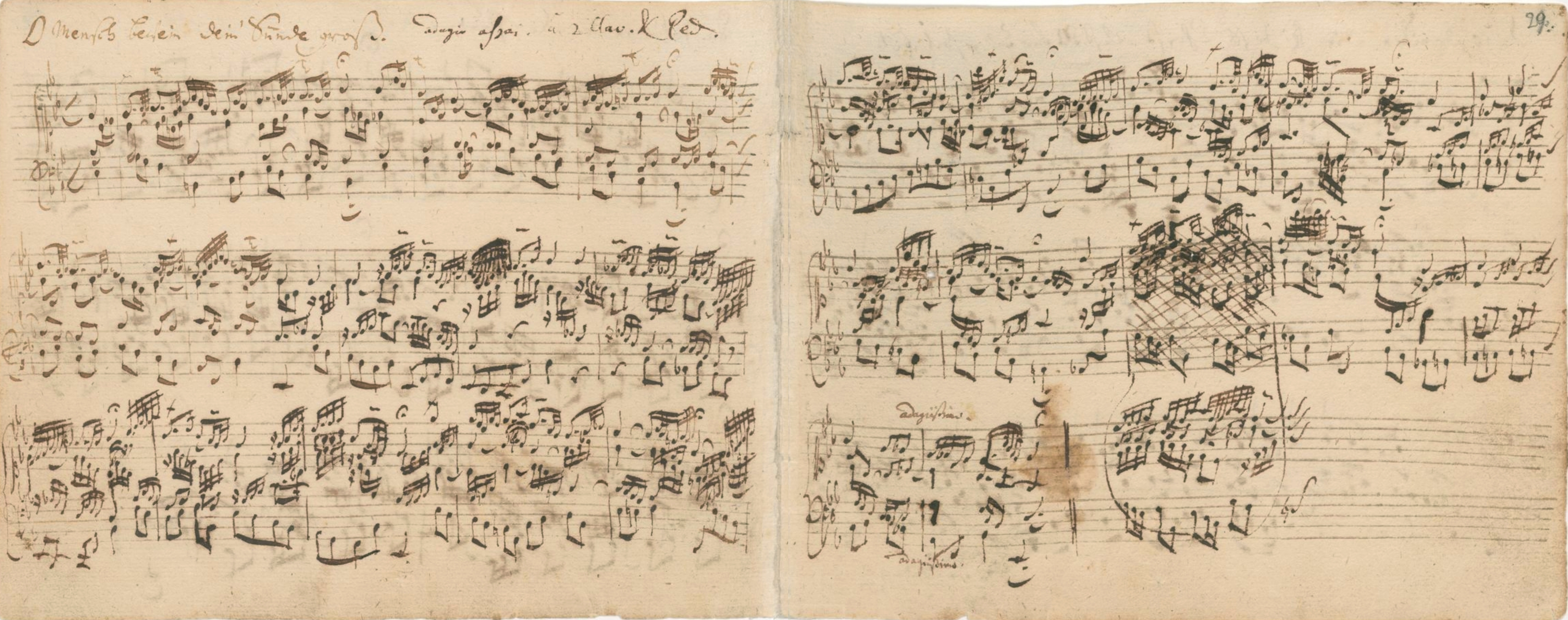 Autograph score of BWV 622, O Mensch, bewein dein Sünde groß, from the Orgelbüchlein